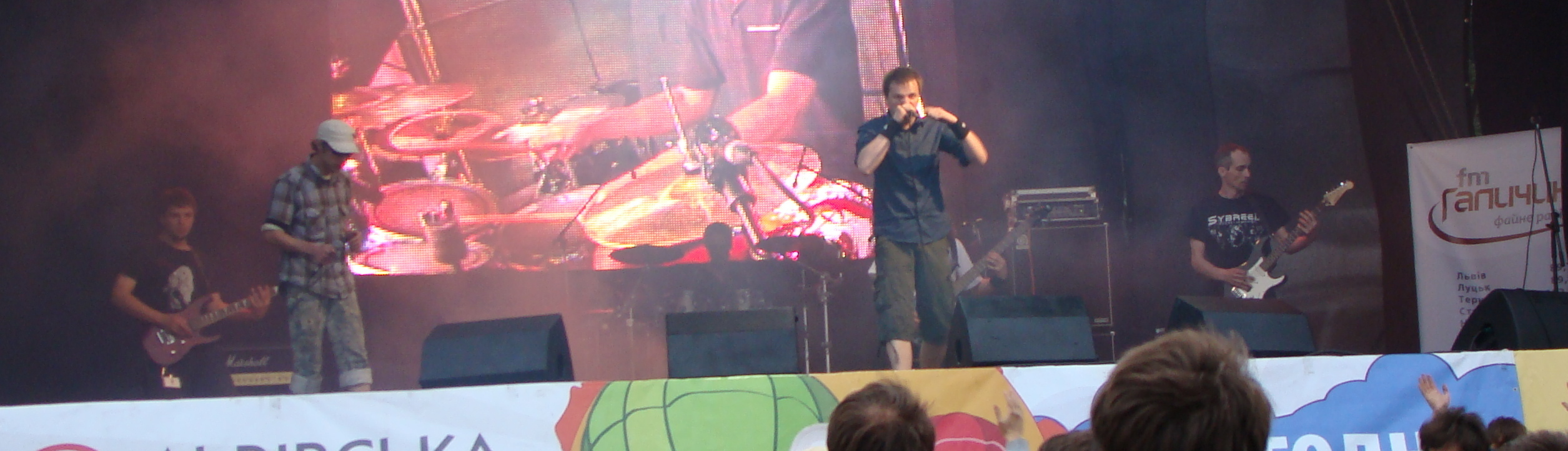 Bazooka Band during their appearance in the Fort.Missia festival 2011.